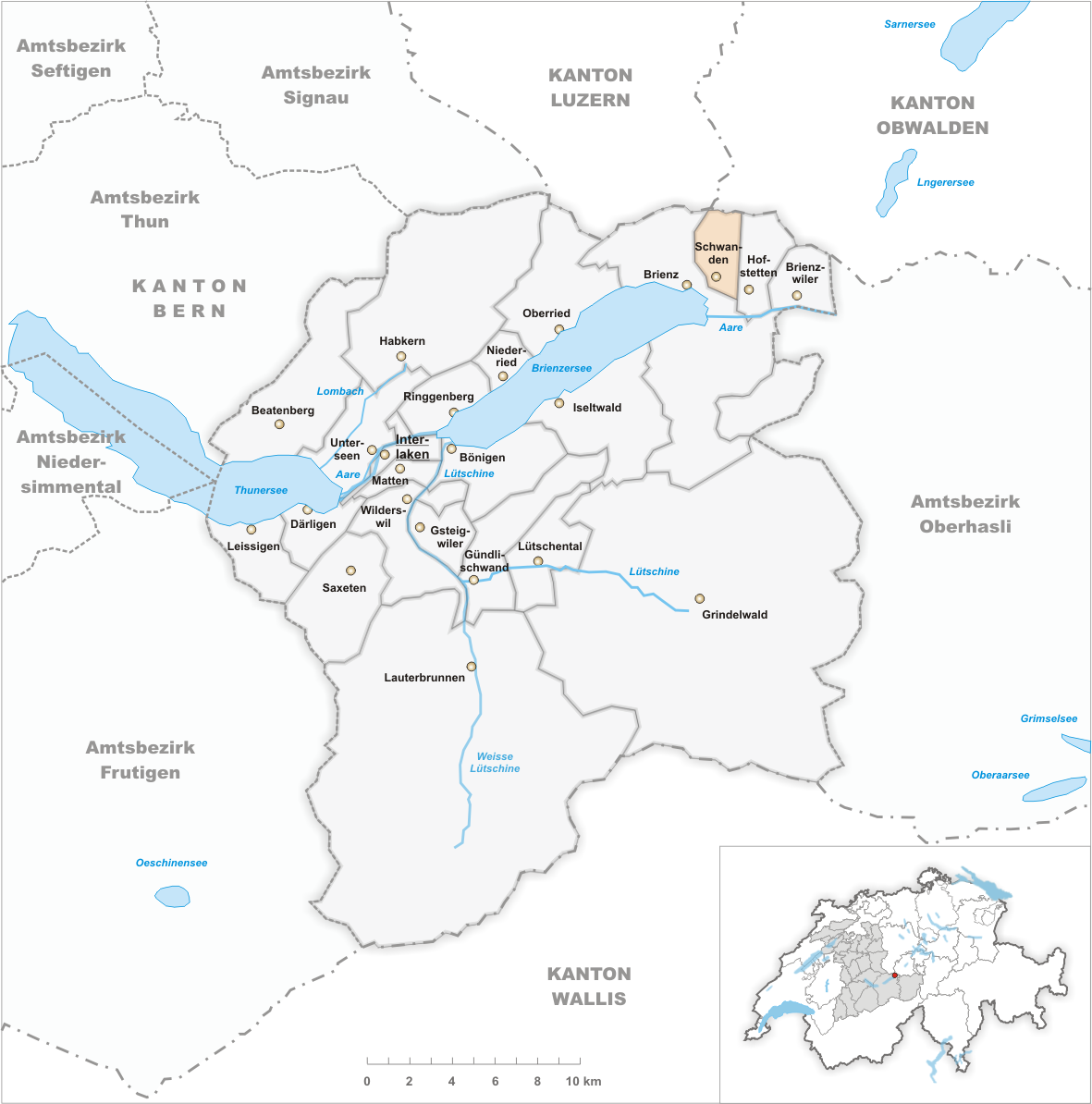 Municipality Schwanden bei Brienz